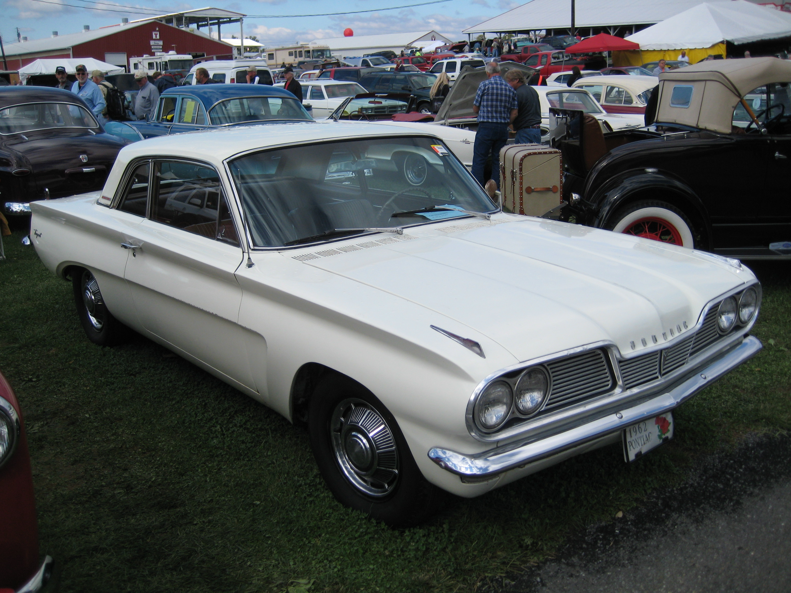 Seen at Fall Carlisle 2010.